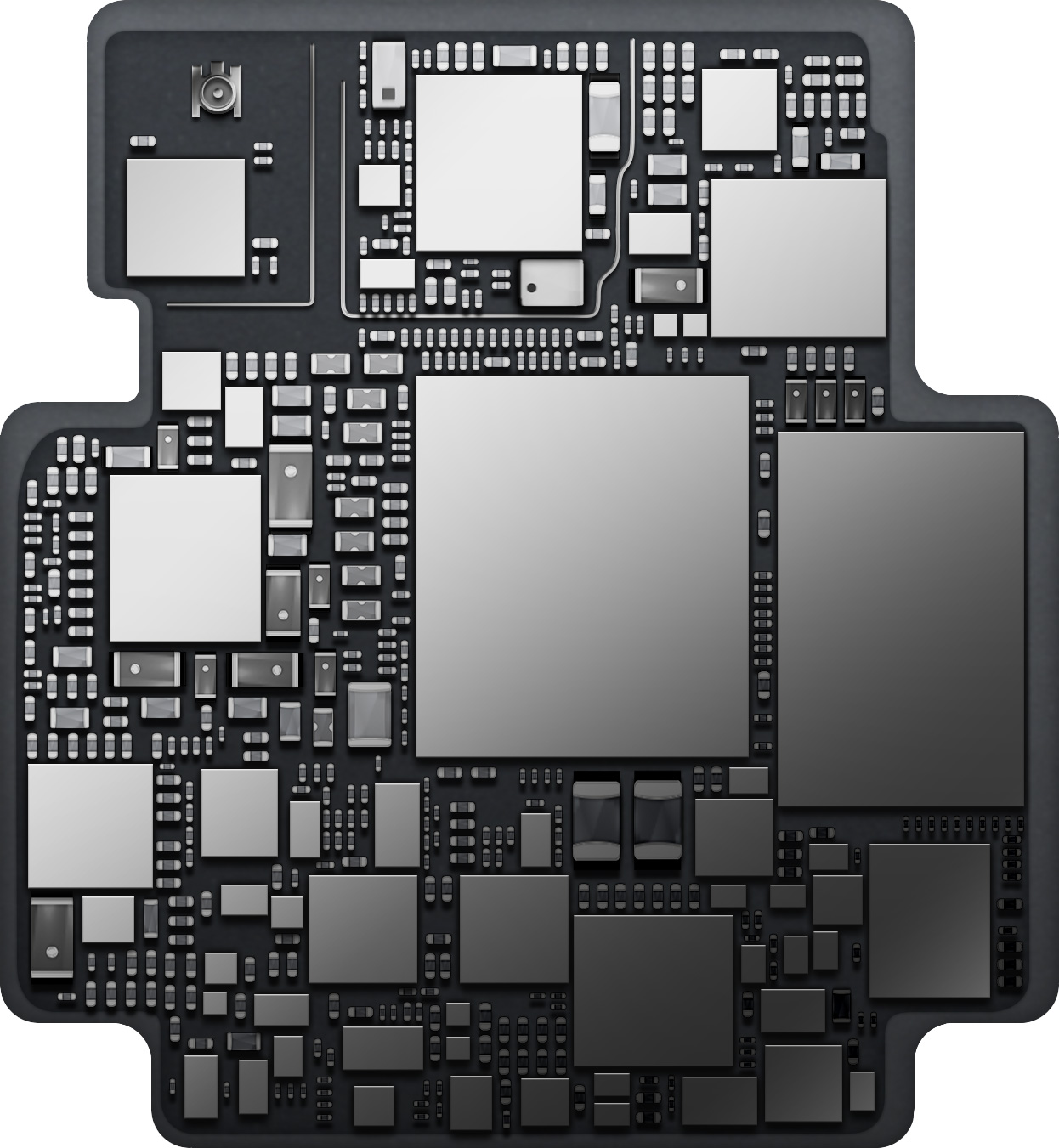 An illustration of Apple's A1 integrated computer for the Apple Watch without its metal heatspreader and with its integrated chips exposed. Inspiration for this picture comes from Apple's promo video for the Apple Watch.